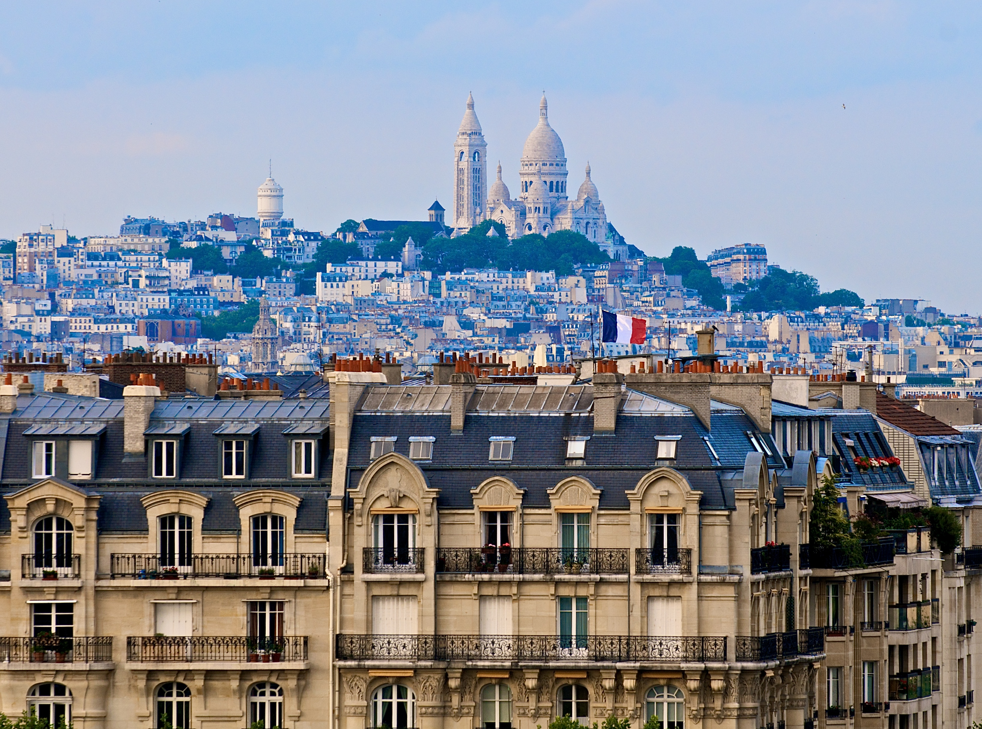 Basilica of Sacré-Cœur, on the butte Montmartre, as seen from UNESCO headquarters